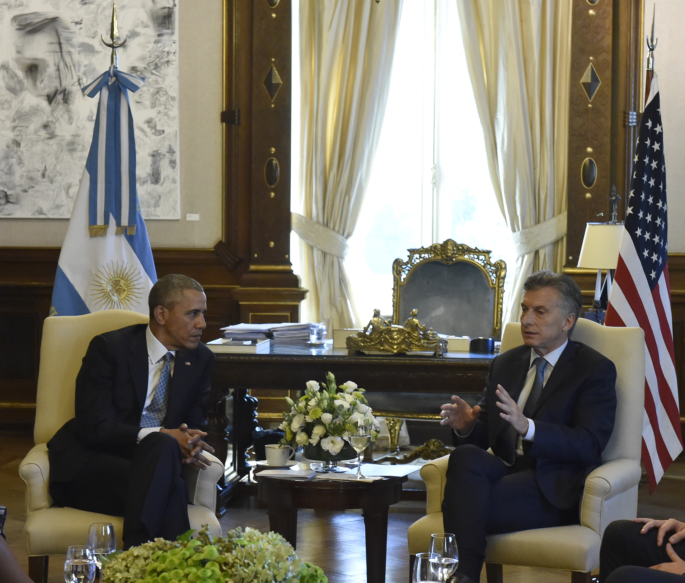 Argentina´s president Mauricio Macri with the presidente of the United States Barack Obama